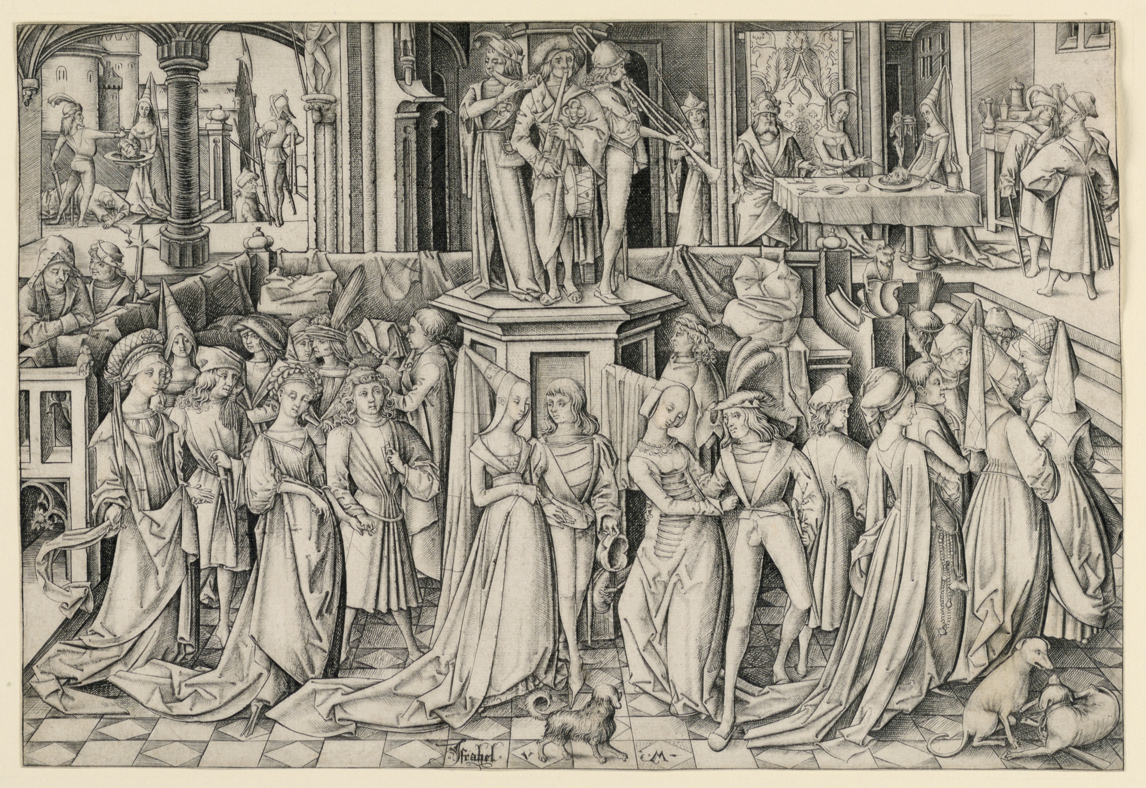 A banquet scene in a palace. In foreground, several couples dancing around musicians standing on a high stand. In background, left: beheading of St. John, the Baptist; right: Herod’s family with the head of St. John.